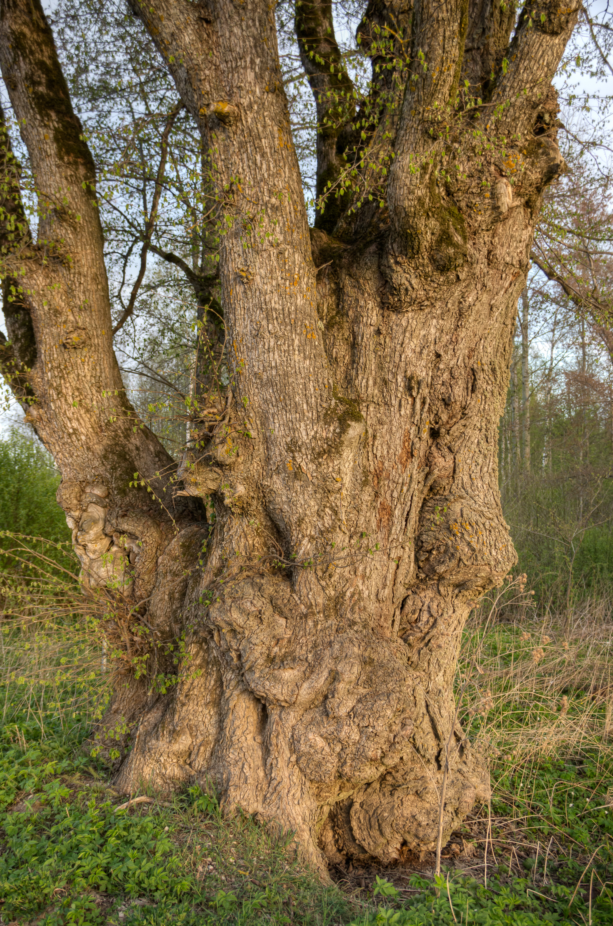 Bole of Lümati elm